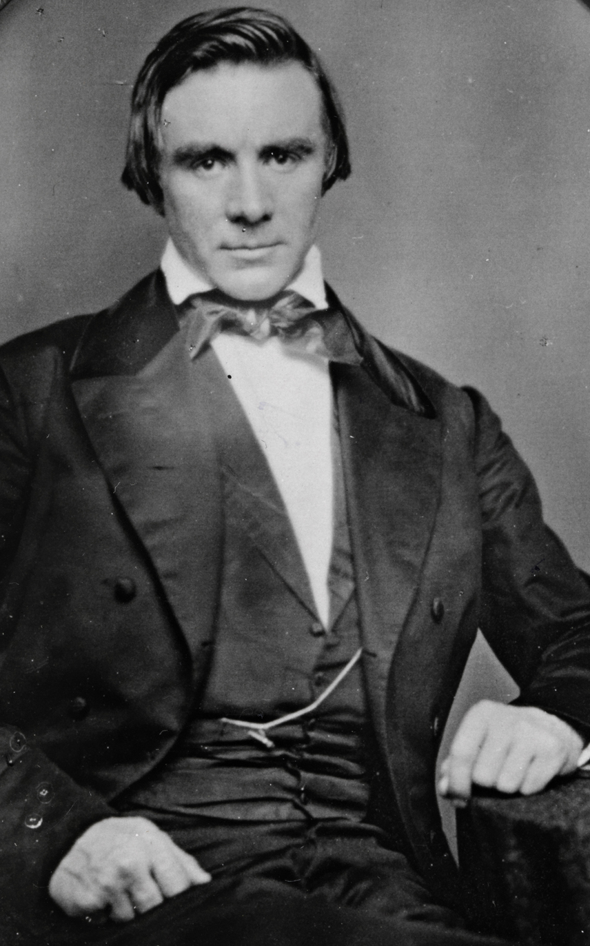 Artist: unknown Date/place: unknown Subject: Ole Bull Medium: photographic positive, reproduction Notes: repro photo by O. Væring Persistent URL: NA Title number: NA Original reference: blds_03483 Original found at [#// The National Library of Norway], digital reproduction by their picture collection.